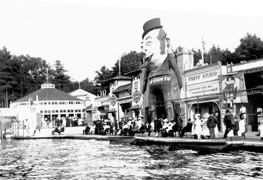 Midway, White City Amusement Park, Worcester, Massachusetts 1908